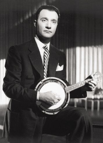 Mohammad Abdel Wahab, Egyptian singer with a mandolin-banjo.